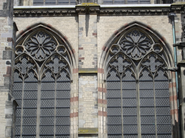 Tracery at the Cathedral of Utrecht